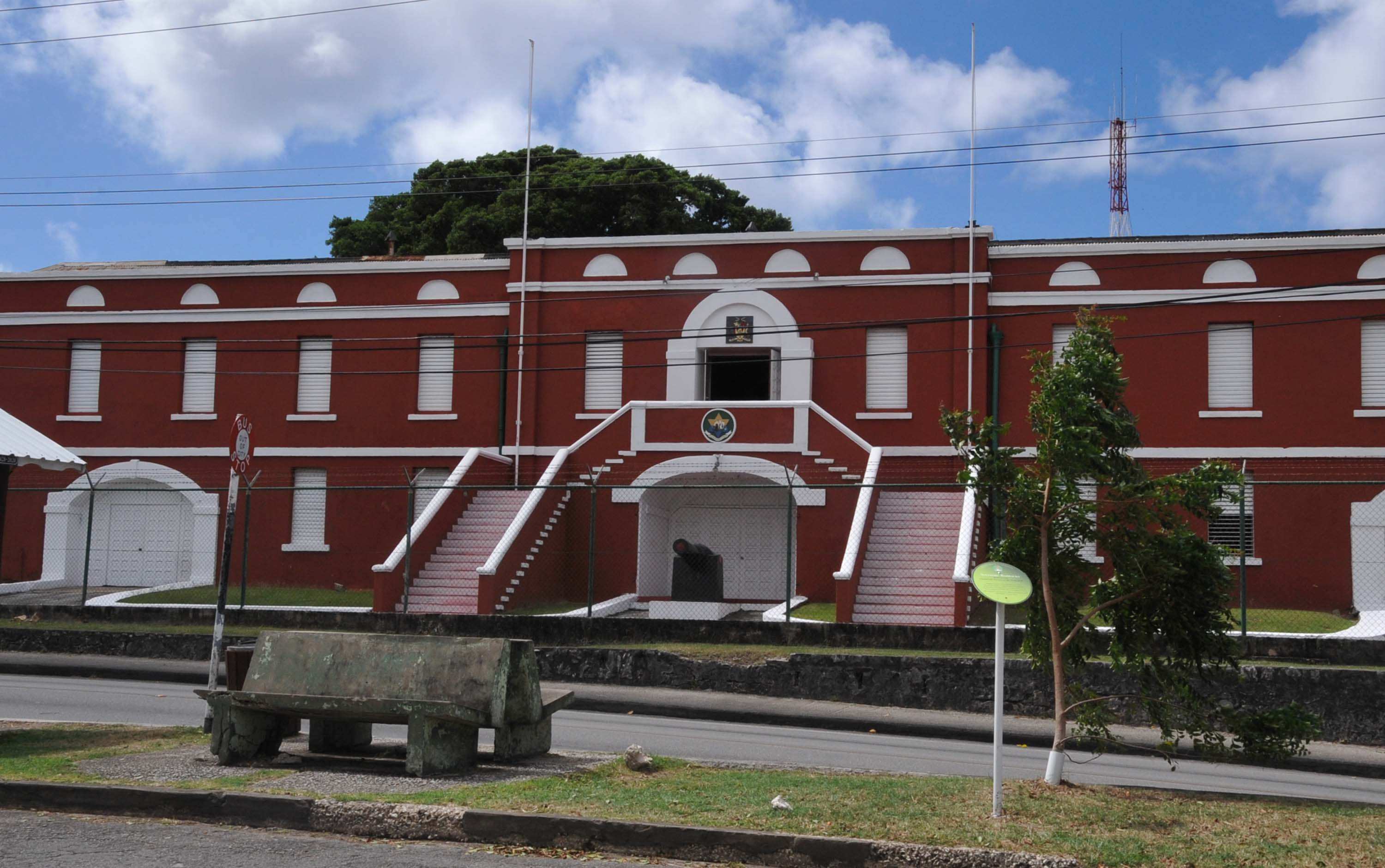 SOLDIERS HALL BUILT IN 1790 WAS ORIGINALLY A BARRACKS. IT ALSO SERVED AS A GYMNASIUM AND DRILL HALL IN 1905